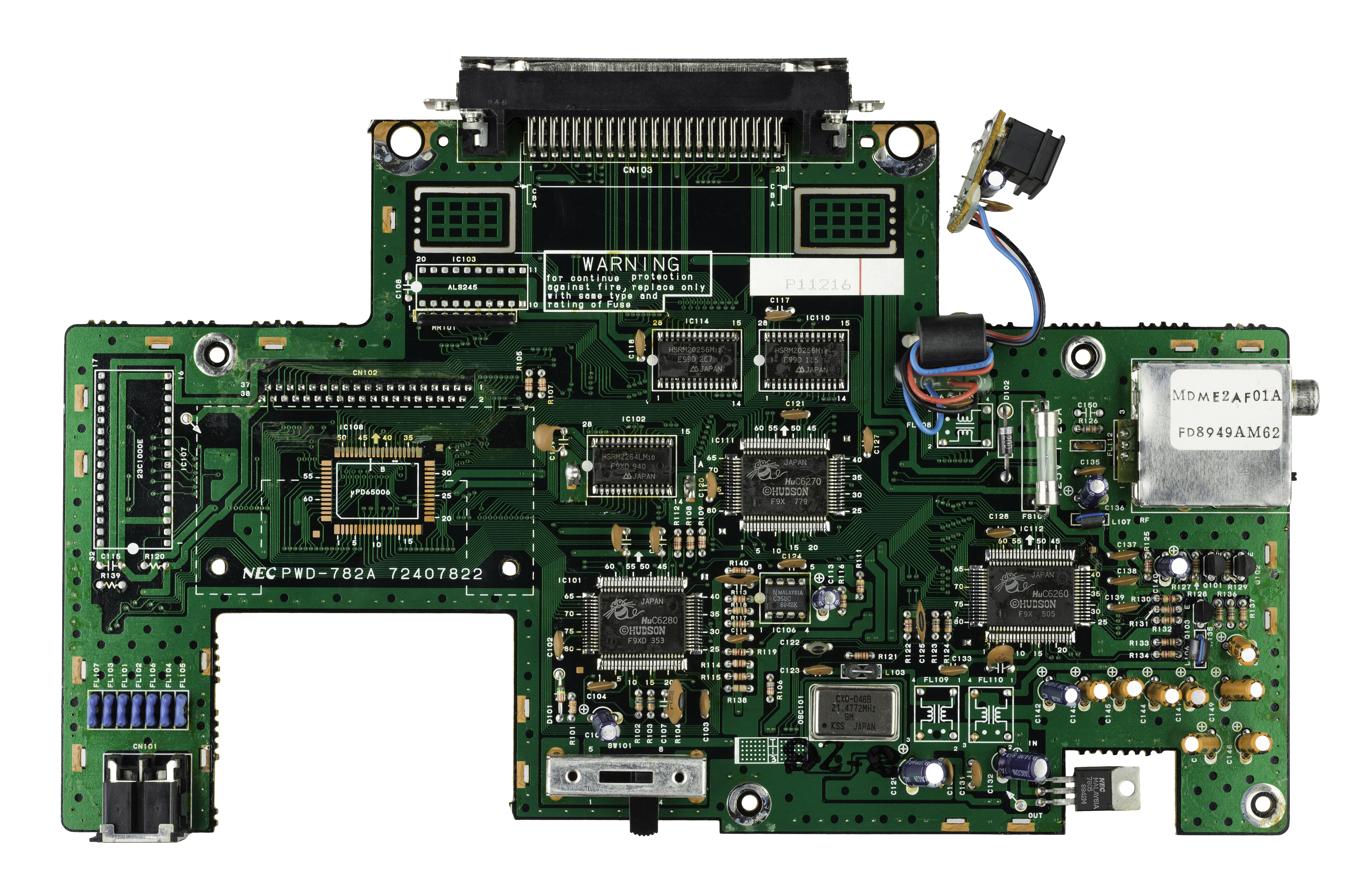 The underside of the motherboard to a TurboGrafx-16, a fourth generation video game console.